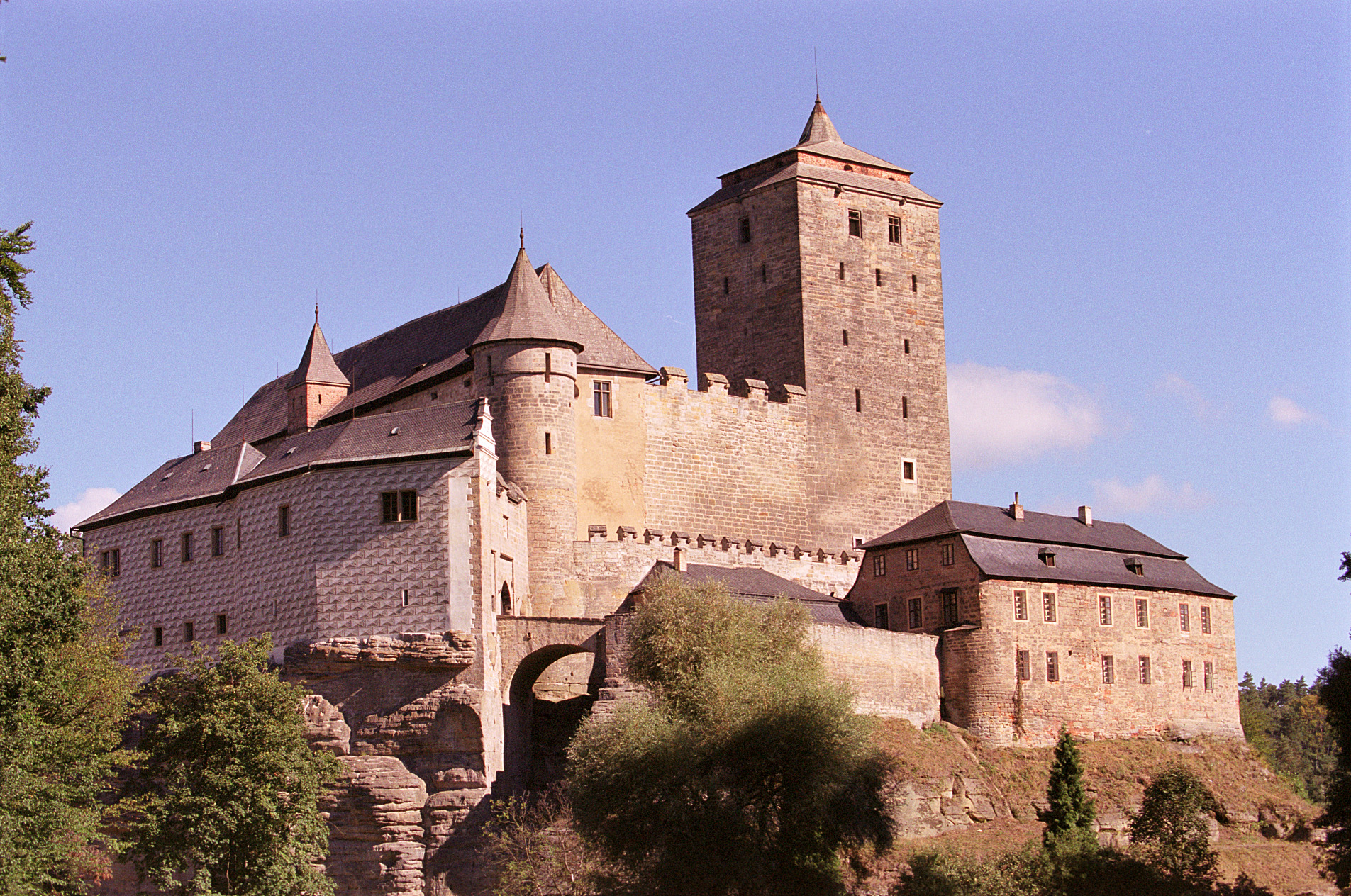 Castle Kost in Czech Republic picture taken by me in summer 2004 licensed under GNU-FDL